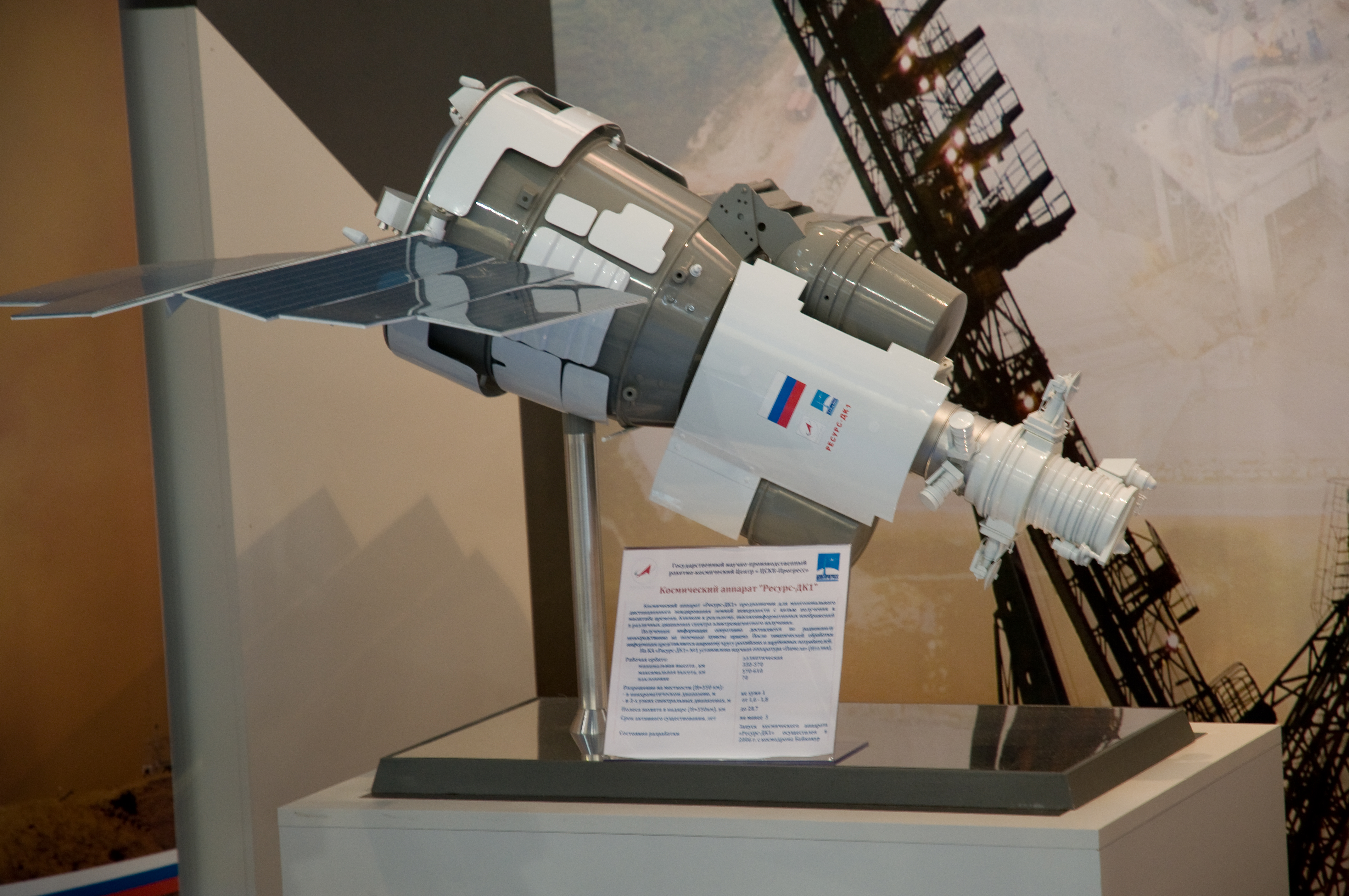 Resurs-DK1 is a commercial earth observation satellite capable of transmitting high-resolution imagery (up to 0.9 m) to the ground stations as it passes overhead. The spacecraft is operated by NTs OMZ (Russian Research Center for Earth Operative Monitoring).